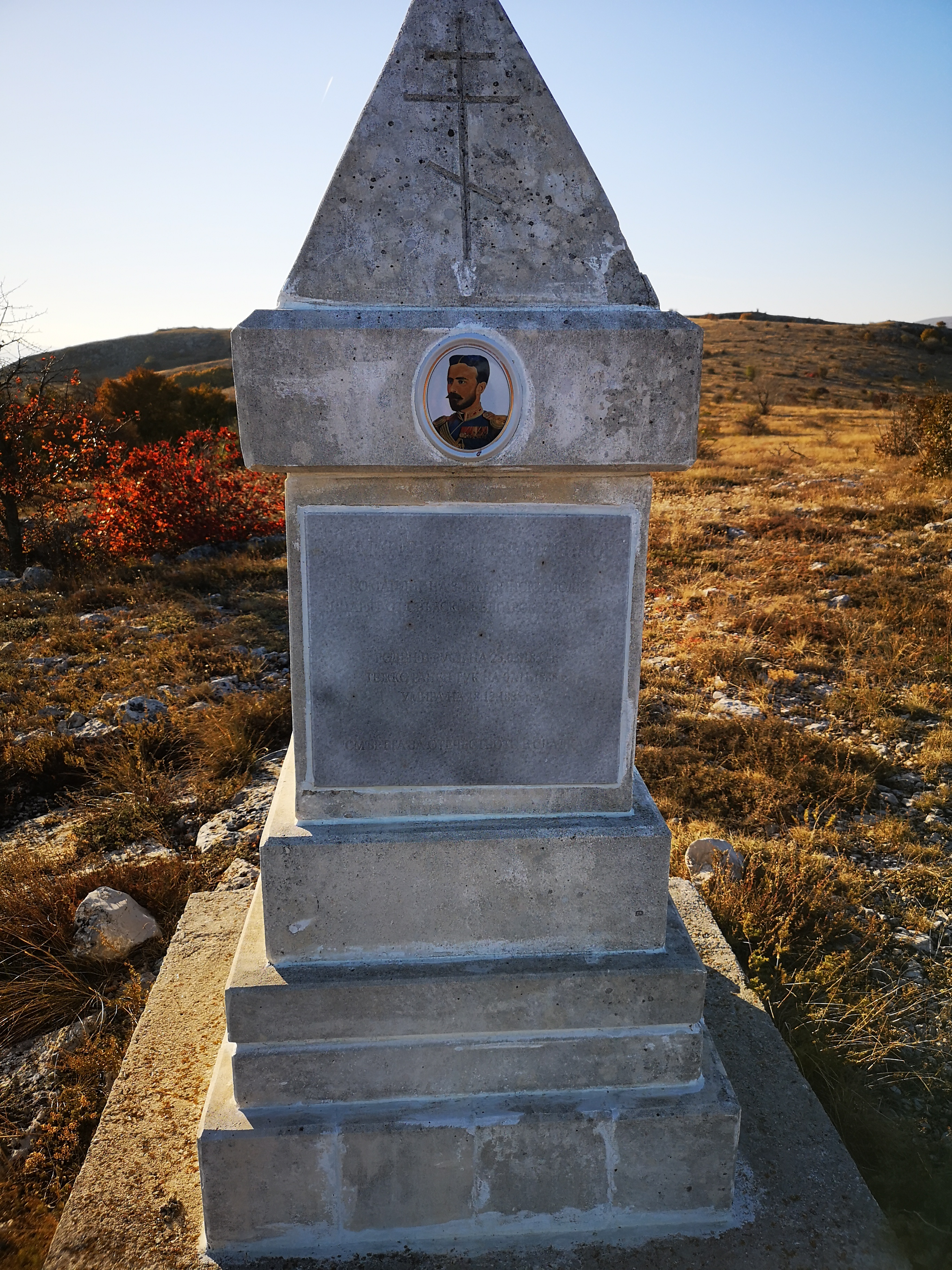 Memorial in memory of Mr. Marin Marinov, Slivnitsa, Bulgaria.